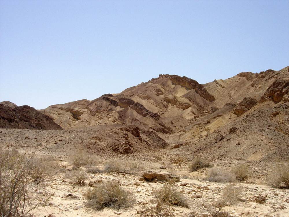 Rocky exposures, Nahal Paran, Negev, Israel.